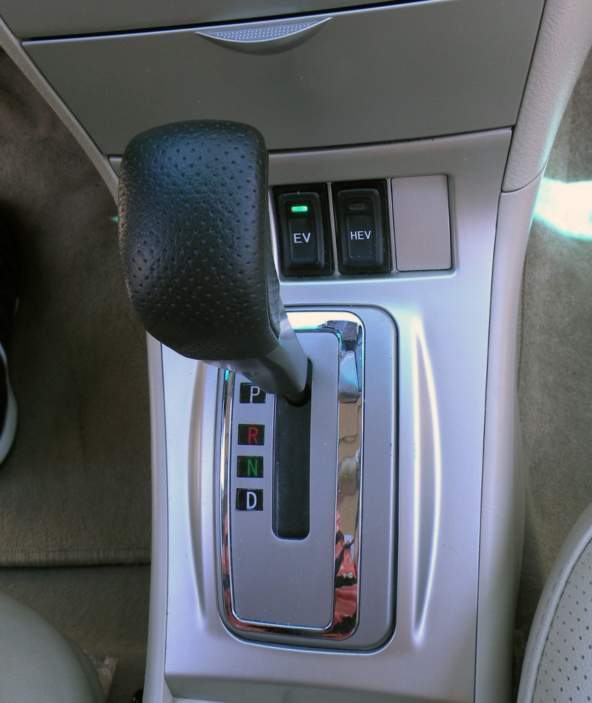 BYD F3DM plug-in hybrid mode buttons that allow the driver to switch from hybrid mode to all-electric (EV) mode